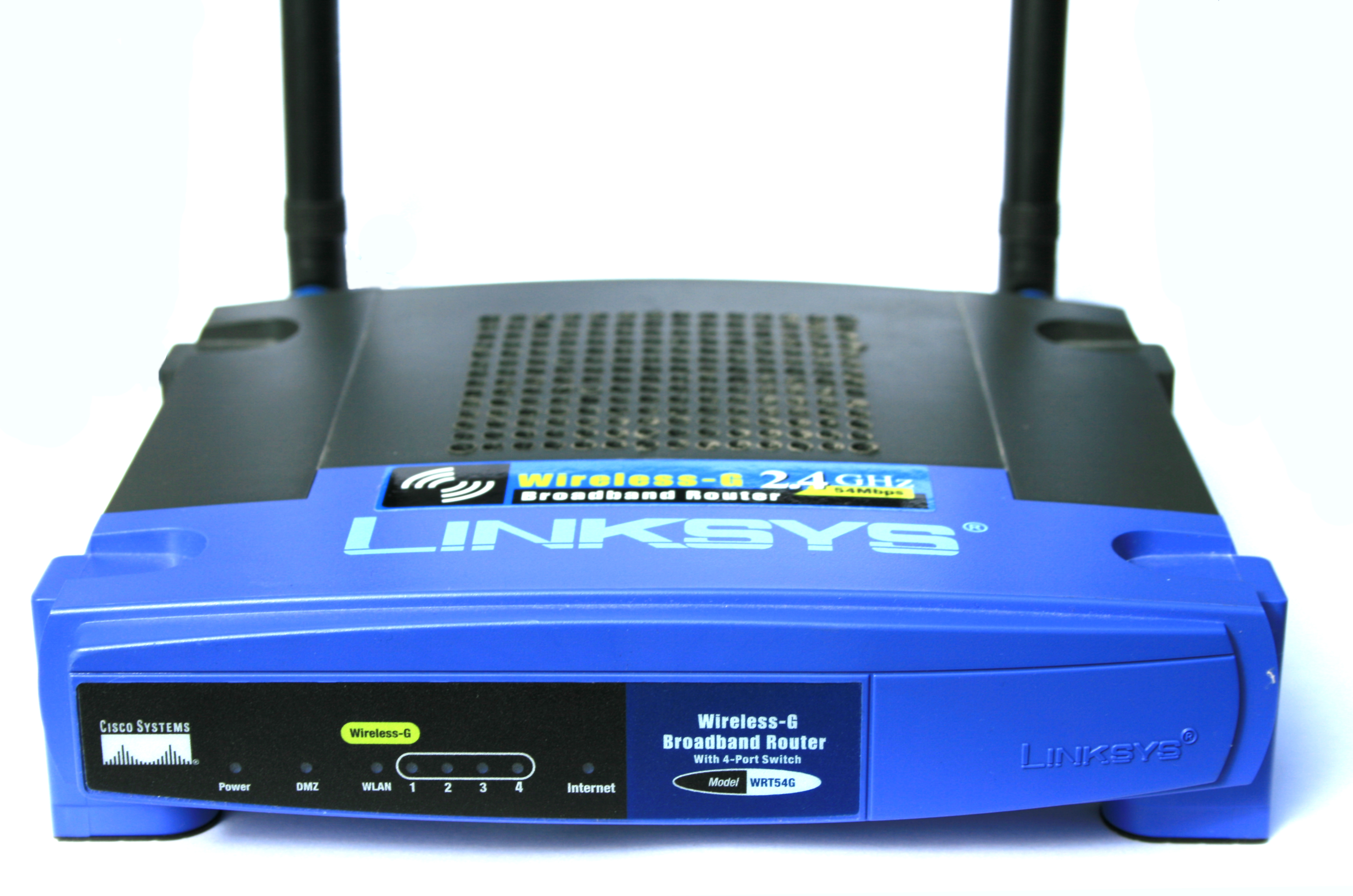 A photo of a version 2 WRT54G Linksys router. The router has been modified to have larger cooling holes.